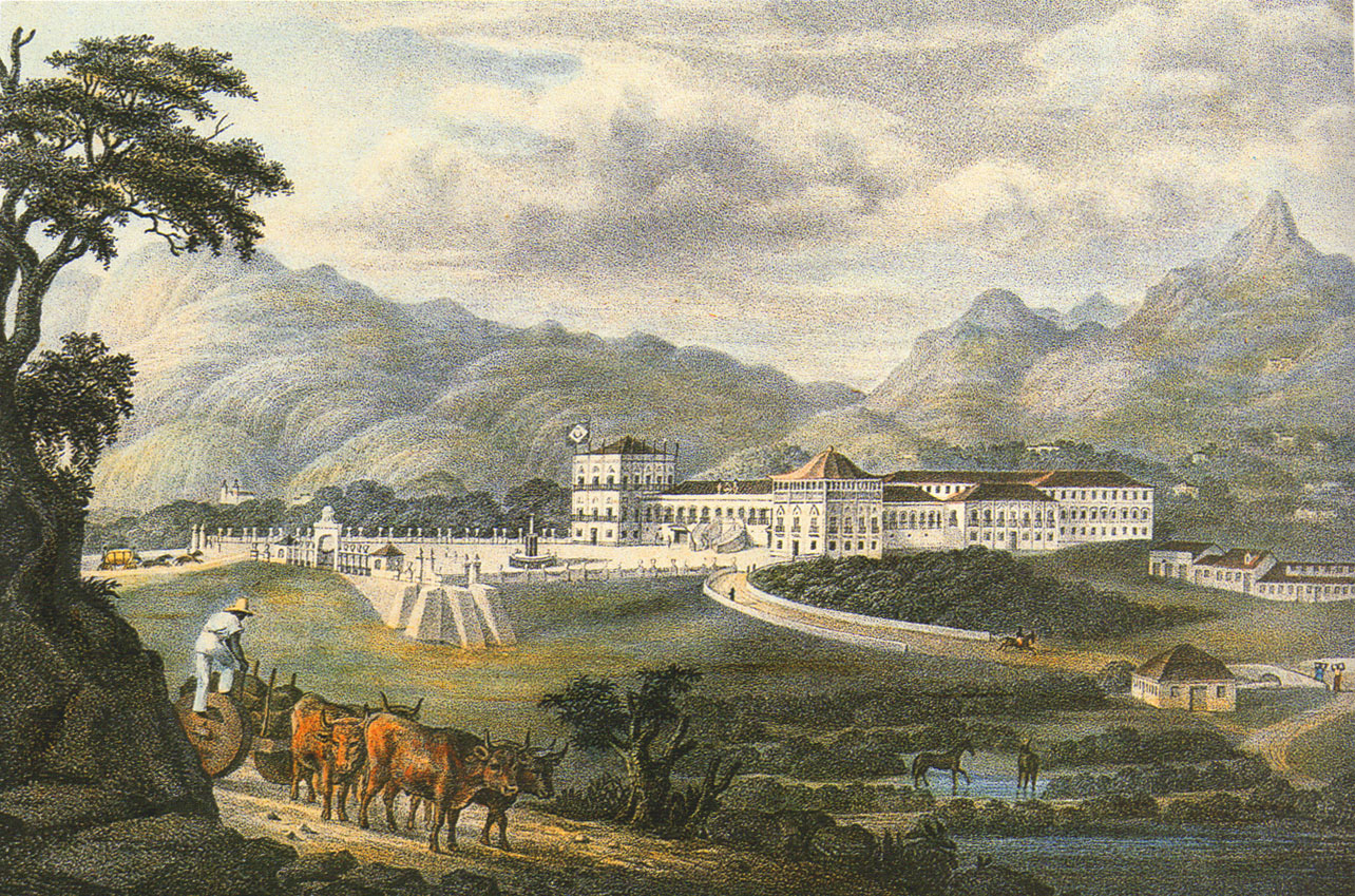 The Palace of São Cristóvão, main residence of the Brazilian monarchs